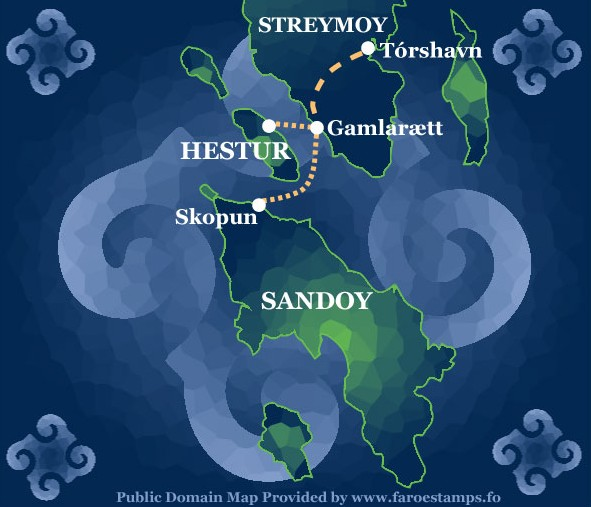 Map of ferry route 60 between Hestur, Gamlarætt and Skopun, with link to Tórshavn by bus, in the Faroe Islands.